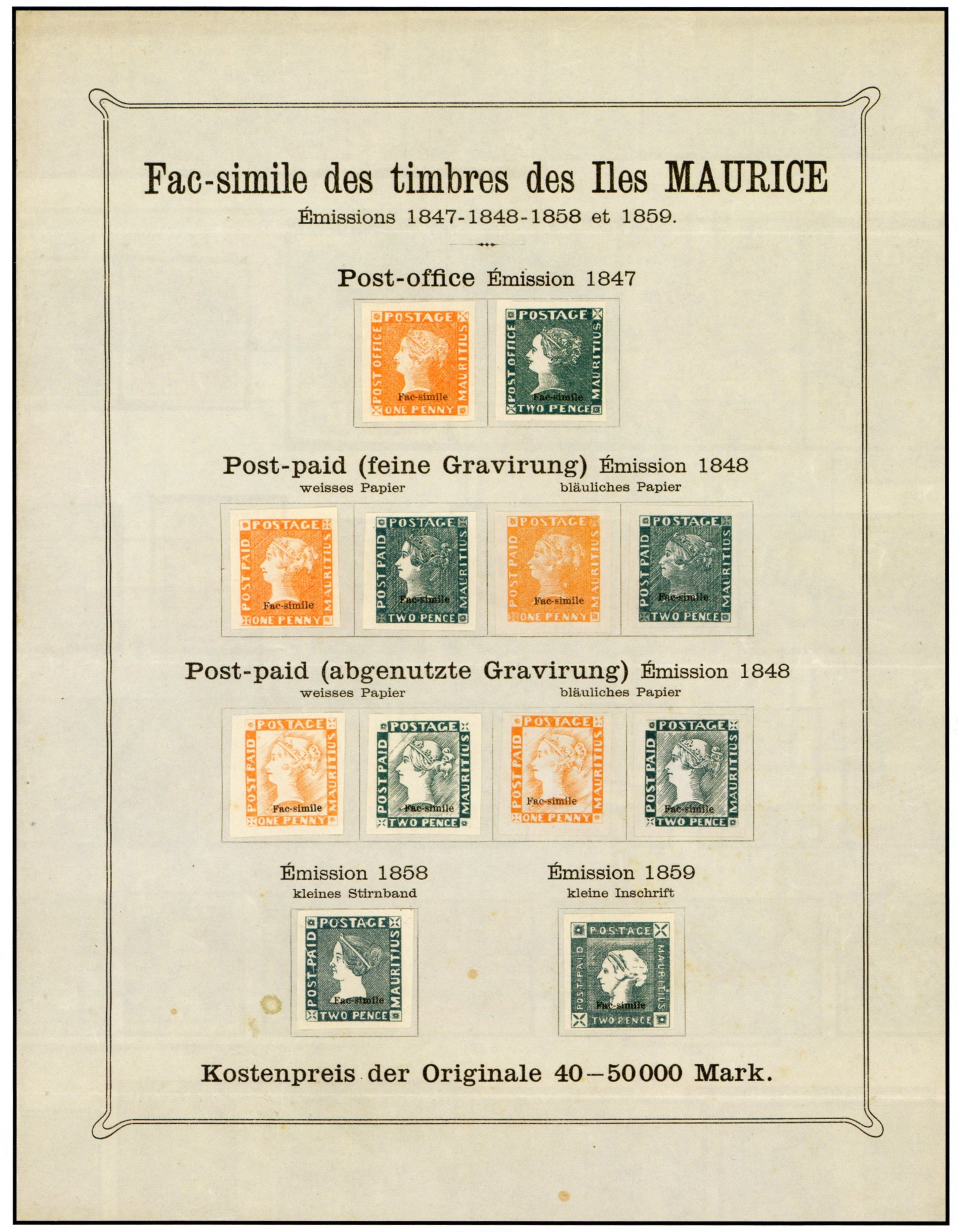 Mauritius page from the Fourier facsimile album.